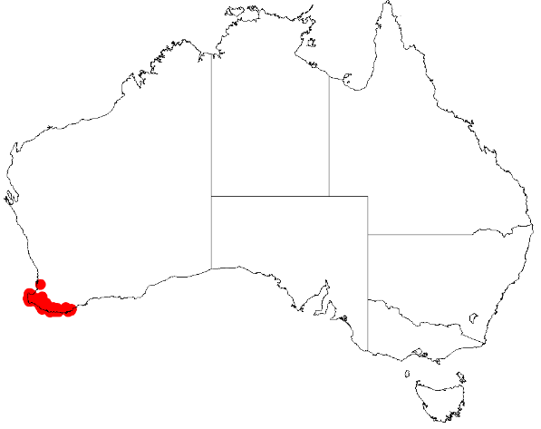 Scaevola microphylla occurrence data downloaded from Australasian Virtual Herbarium 12 May 2019